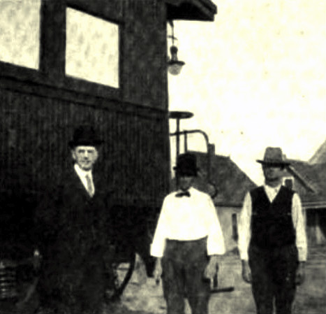 Photo of three men standing in front of the Baptist chapel car Evangel in Wichita, Kansas after new lighting was installed on it. Pictured are W.C. Coleman and two workmen who installed the lighting; William Coffin Coleman was the inventor of the Coleman Lantern.